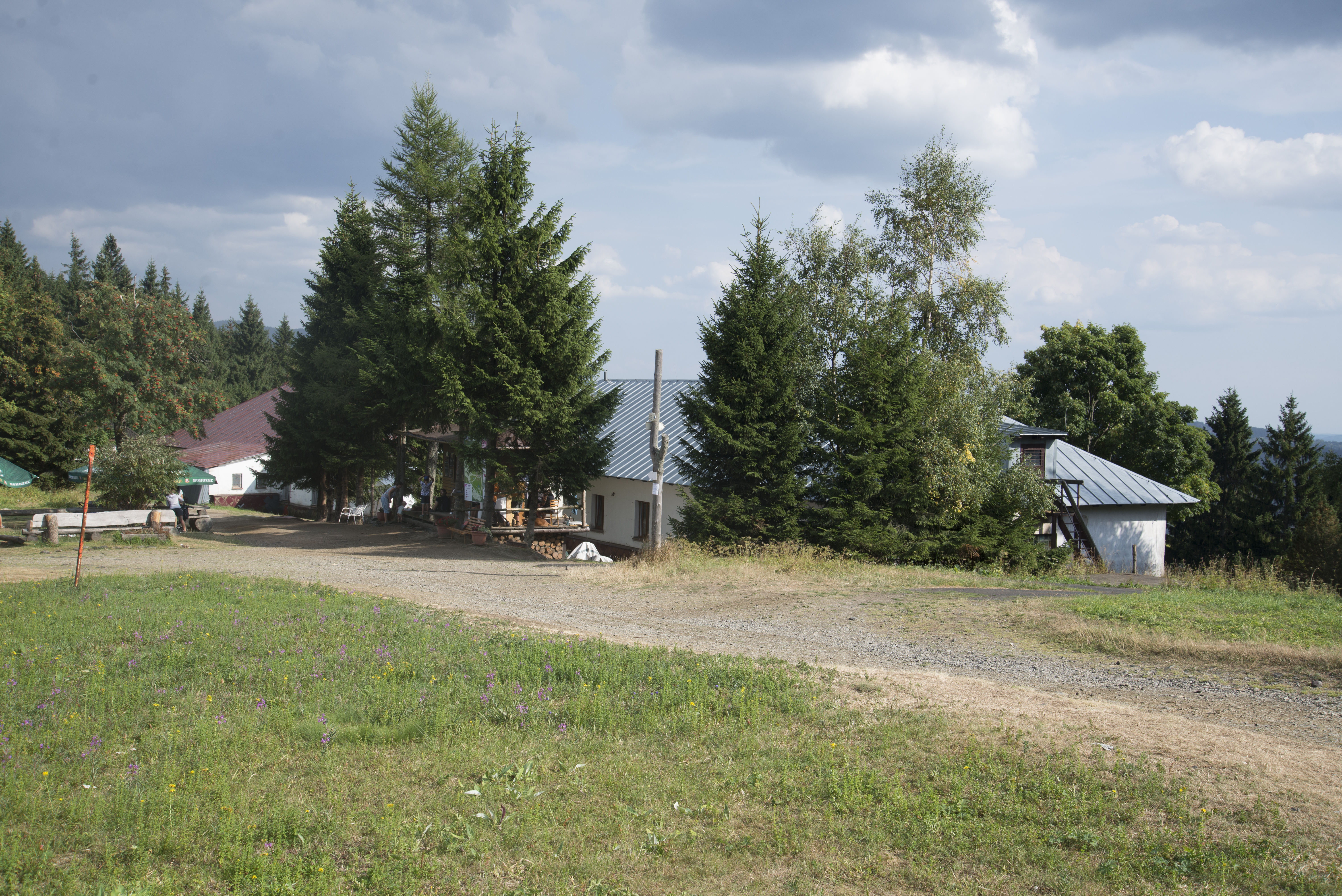 Studenov hut, Studenov, small village, part of city Rokytnice nad Jizerou, district Semily, Liberec region, Czechia